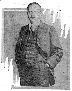 Graphic of Carl Jung, published in 1912.